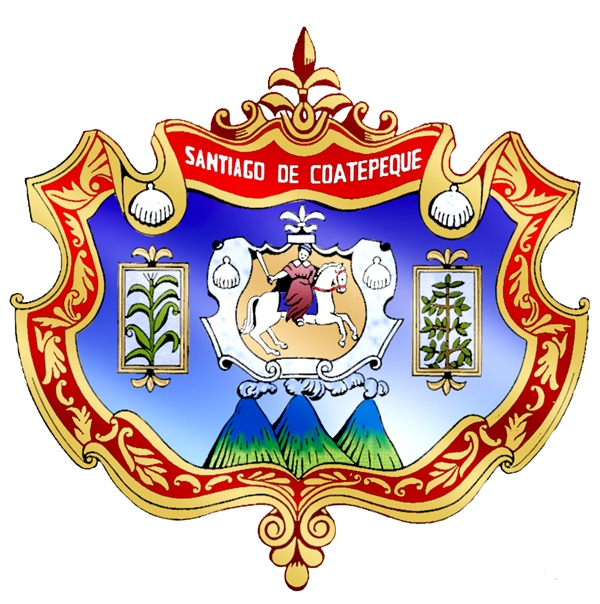 Official seal of the City of Coatepeque